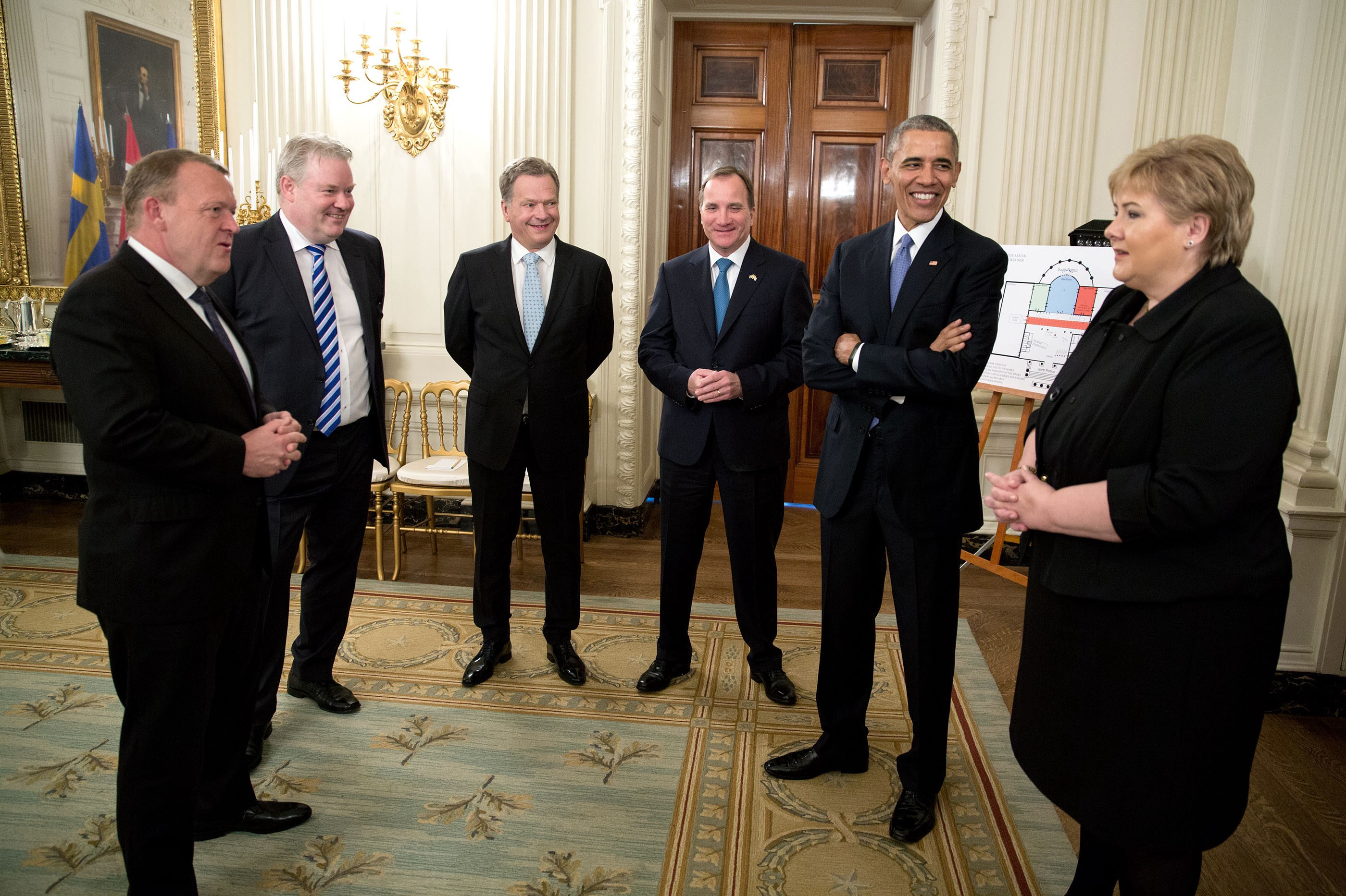 President Barack Obama and Nordic leaders wait in the State Dining Room prior to the arrival ceremony. From left: Lars Løkke Rasmussen (Denmark), Sigurður Ingi Jóhannsson (Iceland), Sauli Niinistö (Finland), Stefan Löfven (Sweden), Barack Obama (USA) and Erna Solberg (Norway).(Official White House Photo by Chuck Kennedy)